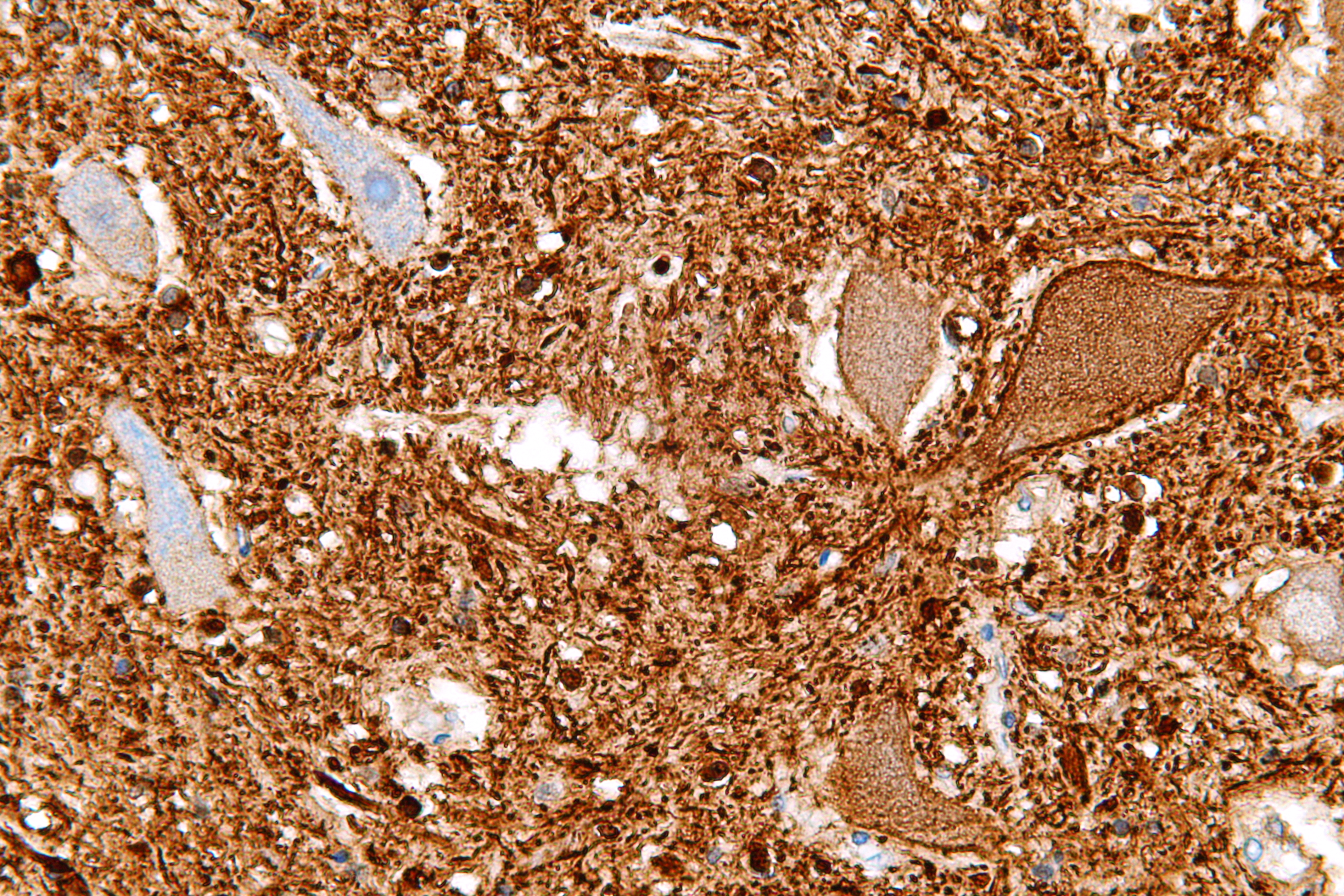 Very high magnification micrograph of the anterior horn of the spinal cord showing motor neurons with central chromatolysis. Neurofilament immunostain. Related images Intermed. mag. High mag. (NF) Very high mag. (NF)